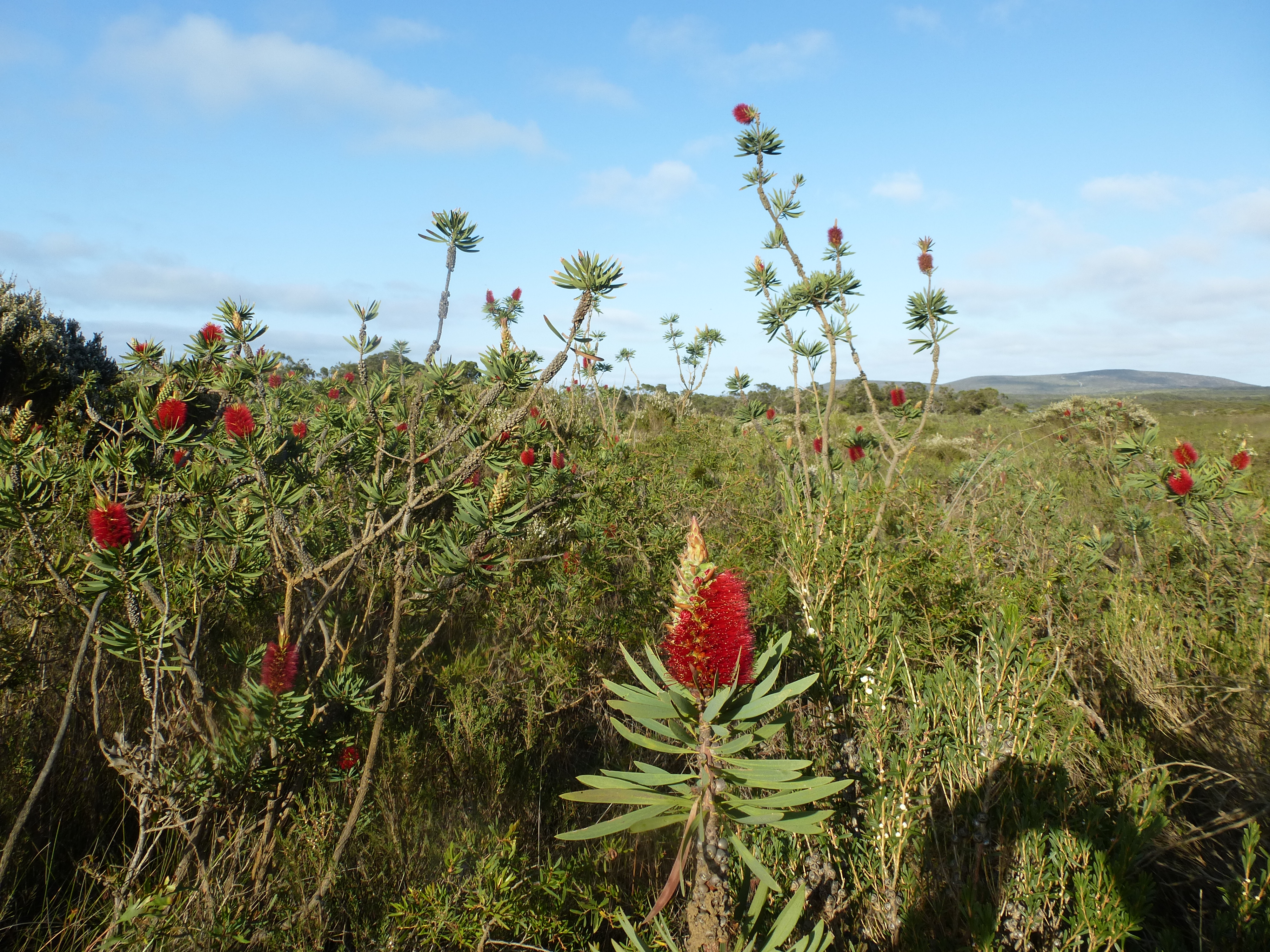 Melaleuca glauca growing in Gull Rock National Park near Albany